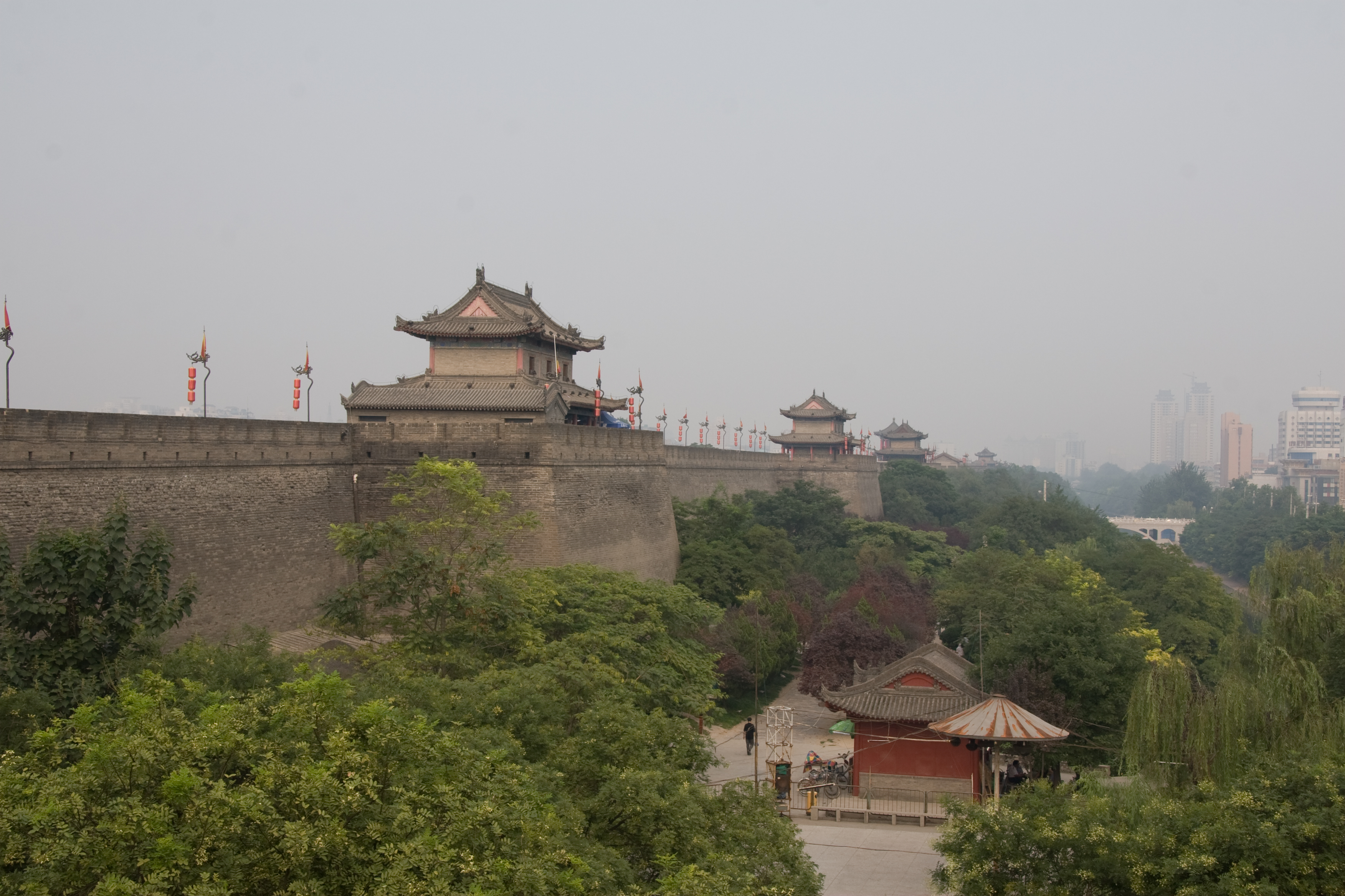 City Wall in Xi'an, China